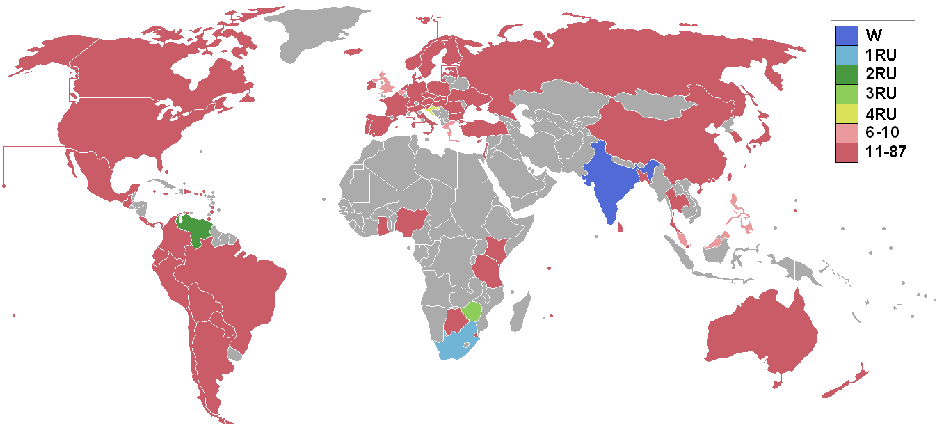 image created by Joey80